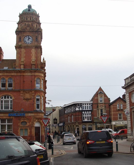 Four Streets In the picture can be seen Broad Street in the foreground, Severn Street to the left in front of Barclay's Bank, High Street to the right, and Shortbridge Street beyond the junction with High Street.